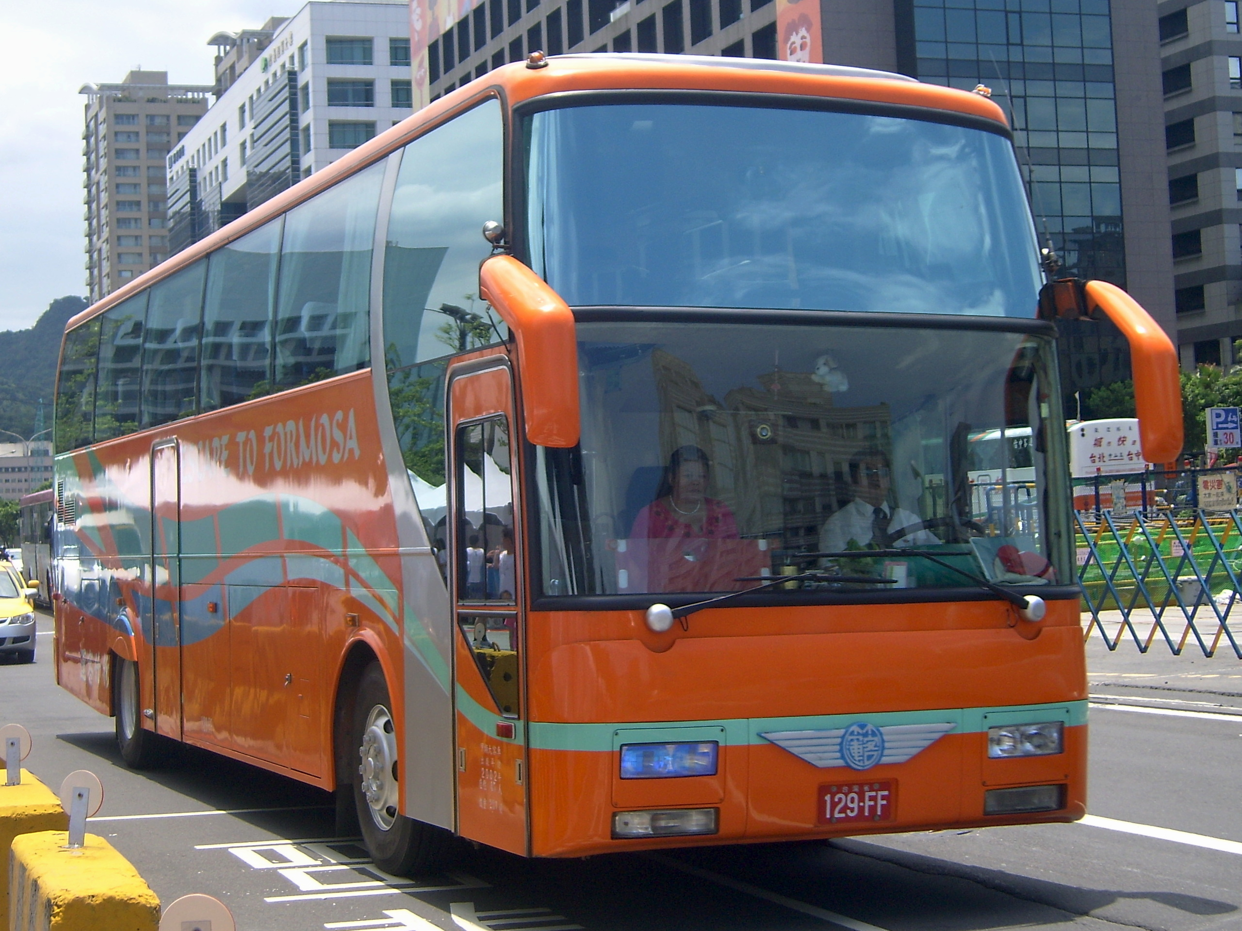 Hsinchu Bus - HINO LRM2PSA.